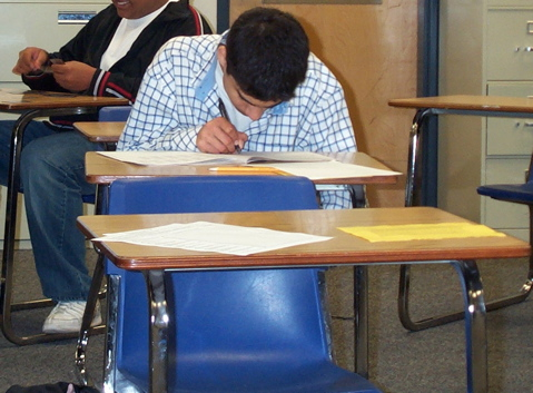 A student takes a California state mandated test at James Logan High School in Union City, Ca. It originally appeared, cropped differently, at It was taken to illustrate a story at the same location and was submitted to wikinews. It's been uploaded to illustrate the wikinews story.